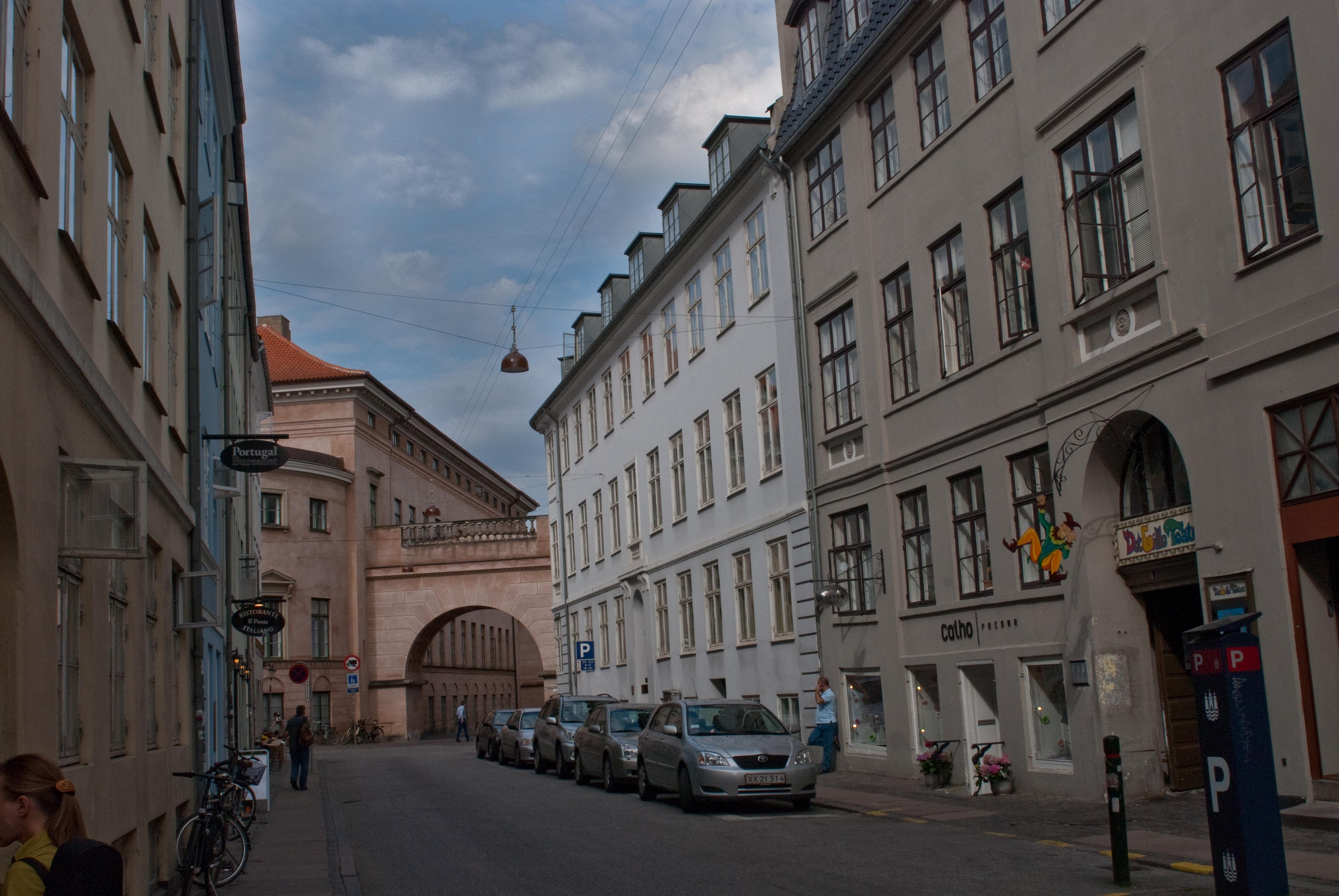 Lavendelstræde in Central Copenhagen, Denmark. The arch is one of two archways of the Copenhagen Court House